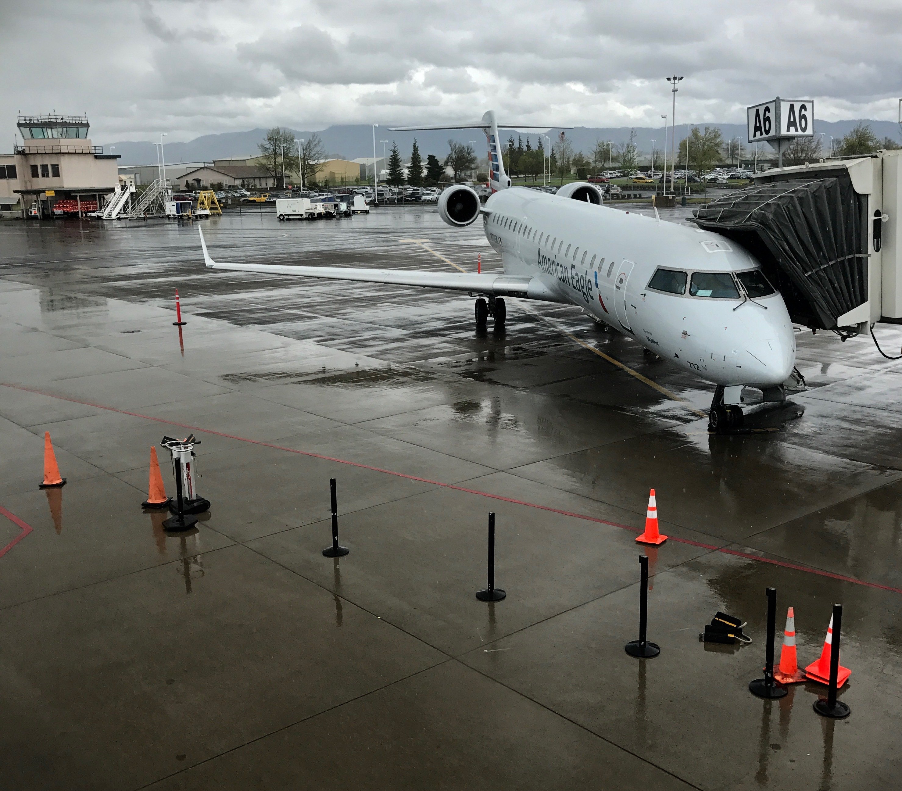 American Eagle CRJ-700 at Eugene Airport